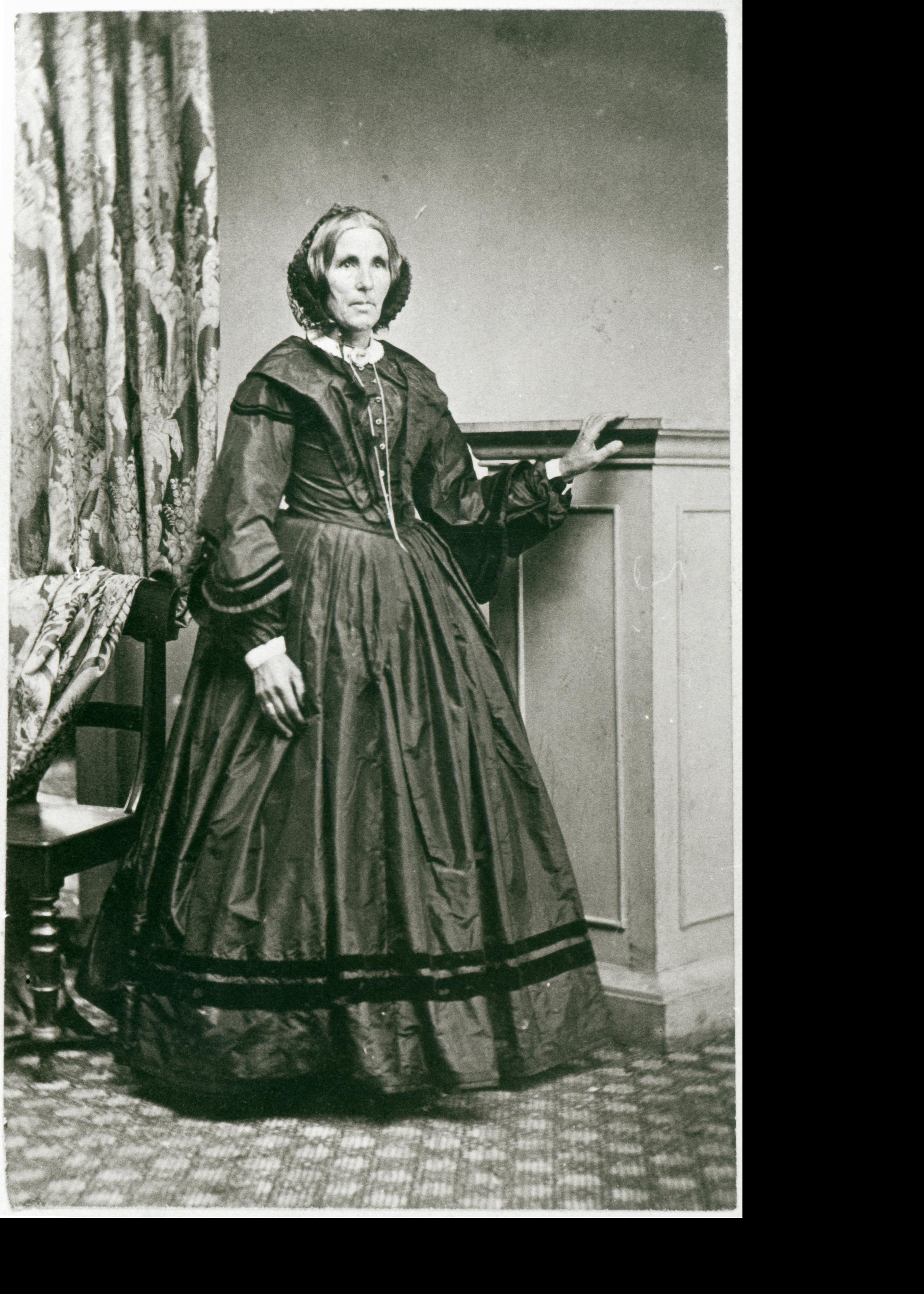 This is a full length portrait of Mrs James (Christina) Smith, standing at a slight angle to the camera and resting one hand on a shelf. A Scottish Presbyterian missionary and teacher she did much work with the Booandik Aboriginies, eventually, in 1865, realising her dream of opening a school and home for local Aboriginal children in Mount Gambier. She wrote a treatise entitled 'The Booandik Tribe of South Australian Aborigines' recording the tribe's rites, songs and language and including biographies of converts.